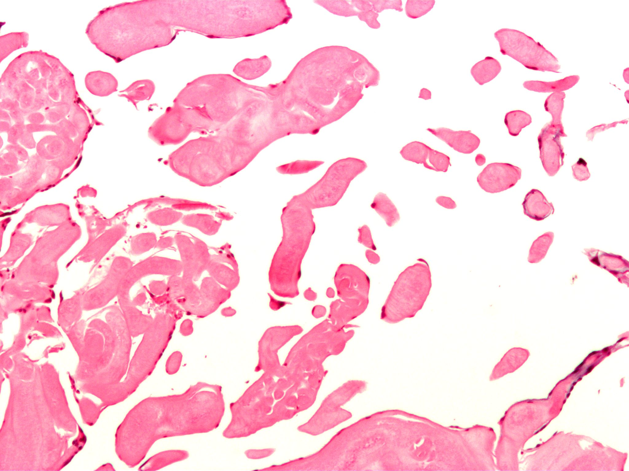 Micrograph of a papillary fibroelastoma of the aortic valve. H&E Stain. Low magnification. Description: branching avascular papillae with dense eosinophilic material (collagen) covered by endothelium. Related images PF - low mag. PF - intermed. mag.